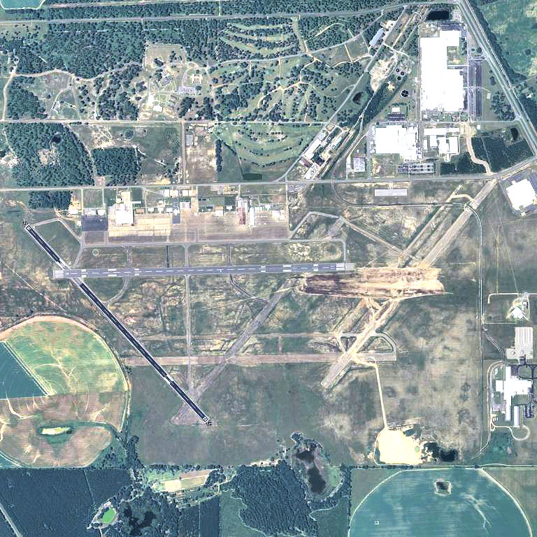 USGS digital orthophoto of Decatur County Industrial Air Park in Georgia